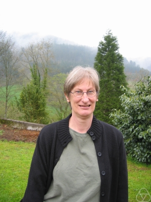 Mathematician Karen Vogtmann, photographed at Workshop: Topological and Geometric Methods in Group Theory: 2006-04-23 - 2006-04-29